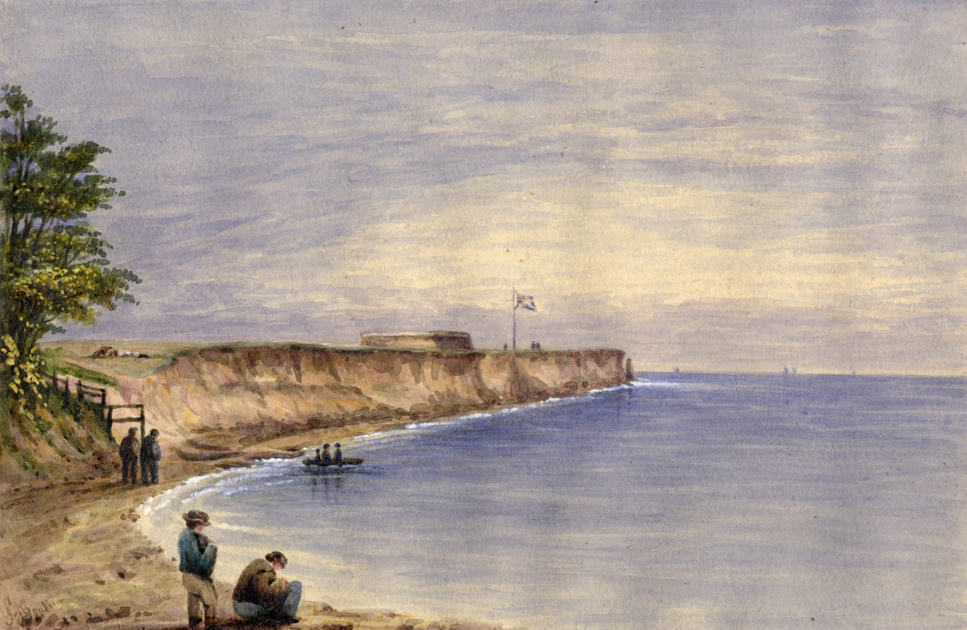 Watercolour of Fort Mississauga, Niagara-on-the-Lake. 149x227 mm, watercolour with some gouache.